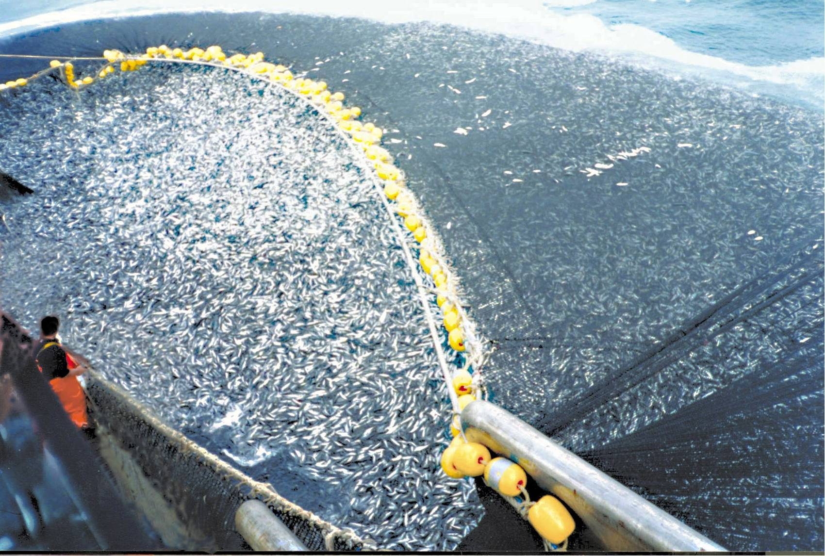 Draggers and Trawlers